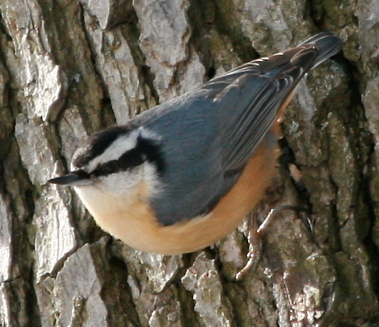 Red-breasted Nuthatch (Sitta canadensis), High park, Toronto, Ontario, Canada.